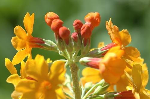 Candelabra Primrose (identified by User:Steve nova)